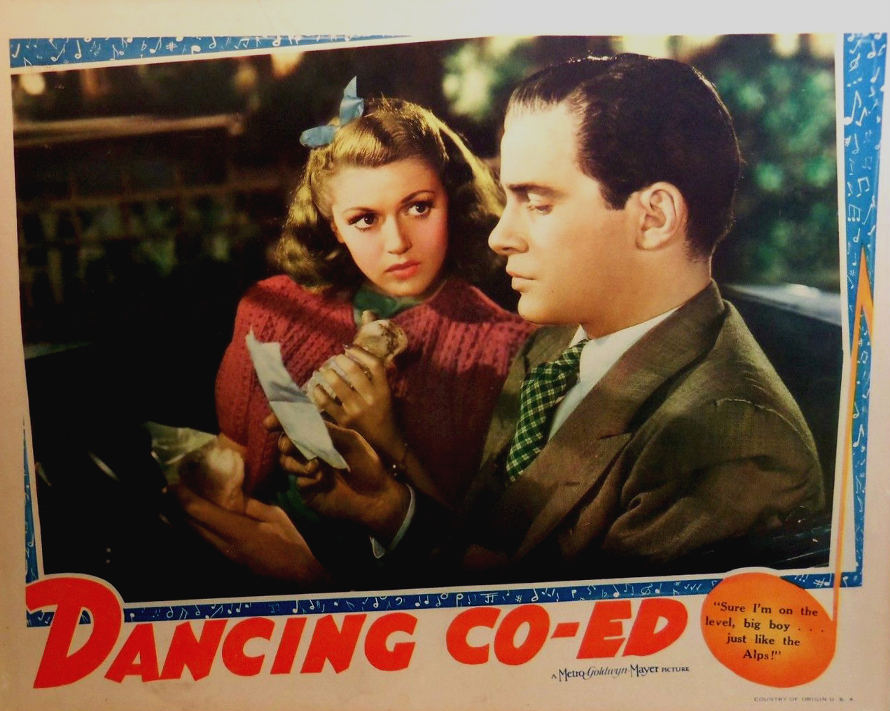 Lobby card for the American romantic comedy film Dancing Co-Ed (1939).